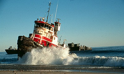 The tug Scandia and barge North Cape that ran aground on Moonstone Beach in South Kingstown, Rhode Island